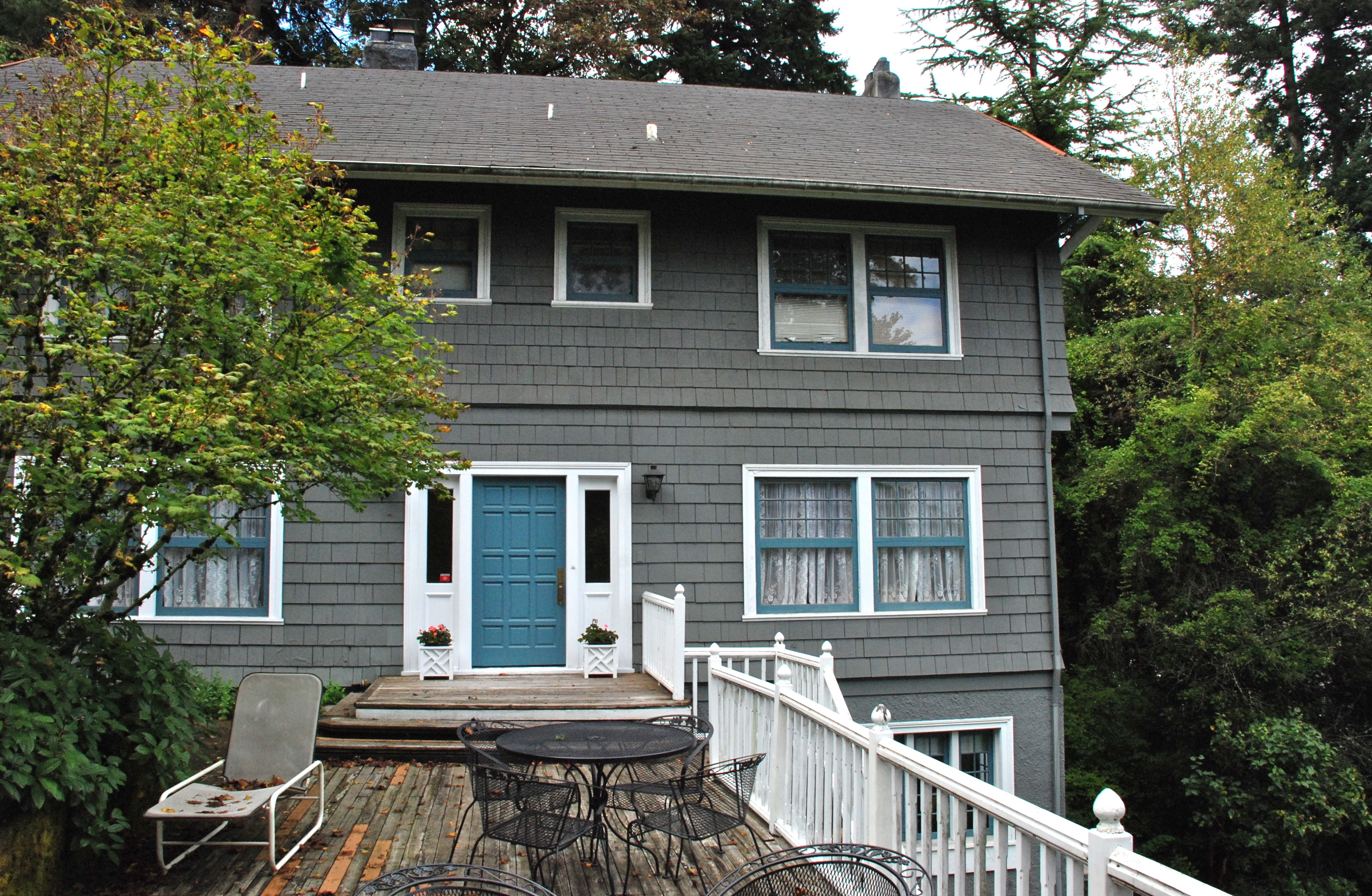 The Samuel G. Reed House, in southwest Portland, Oregon, is listed on the U.S. National Register of Historic Places. This photo shows the front of the house, which faces east.